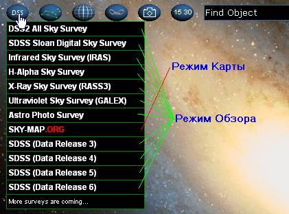 image created bu the owner of the website